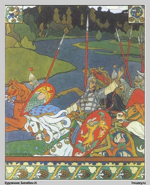 Bogatyr Volga with his drujina (army). from russian bylina